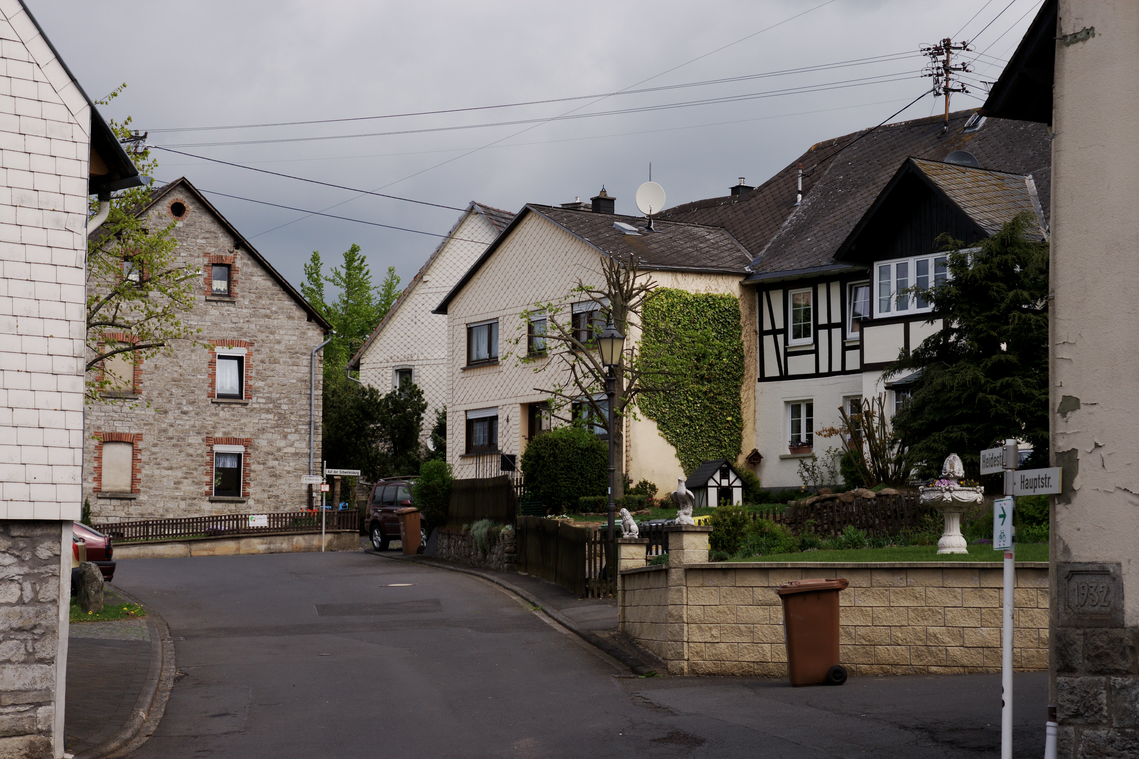 Wölferlingen, Westerwald, Germany. Portrait of the village centre at Heidestraße